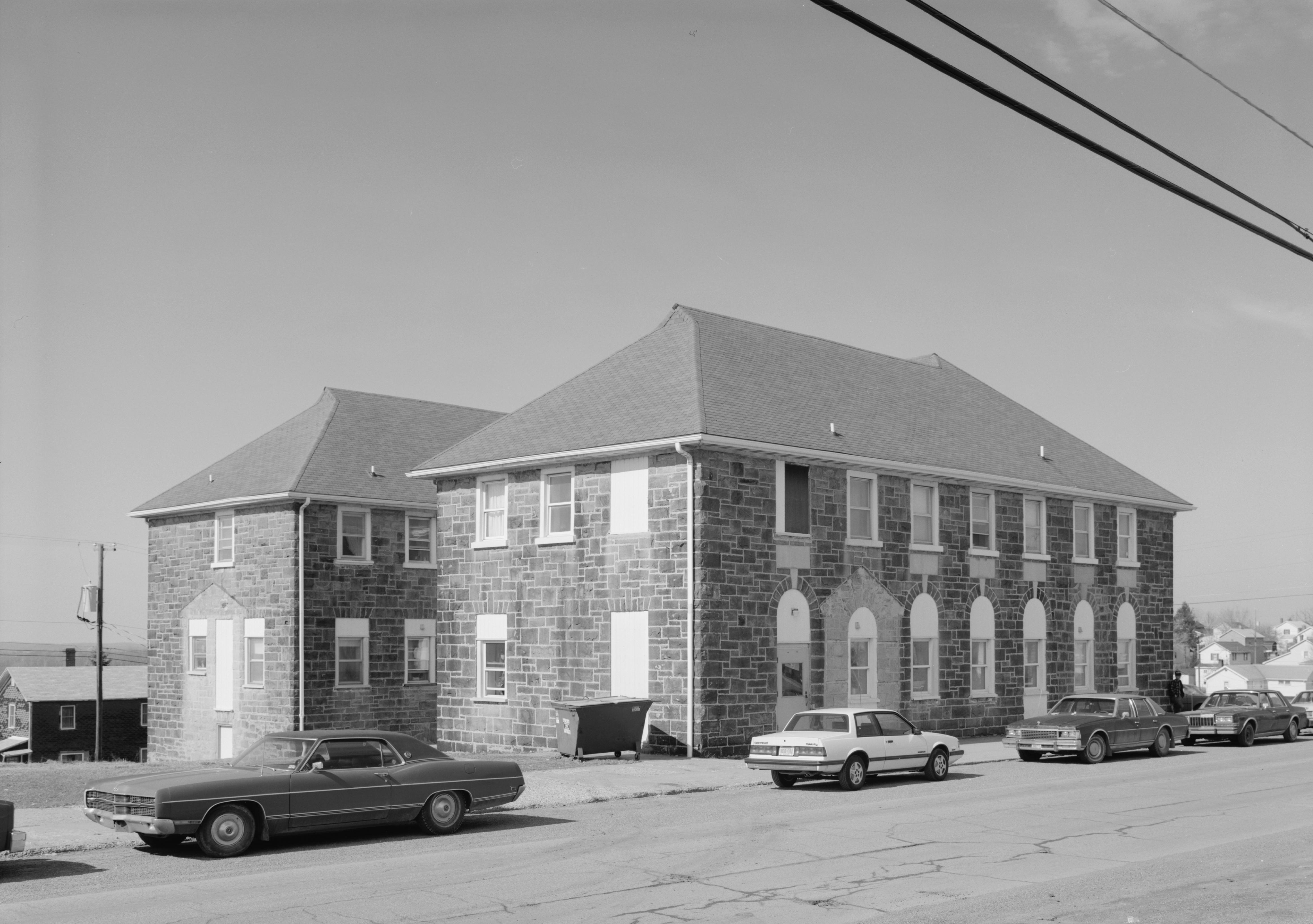 Southern and western sides of the Colver Hotel, located at the intersection of Reese Avenue and Fifth Street in Colver, an unincorporated community in Cambria Township, Cambria County, Pennsylvania, United States. Built in 1912, it is part of a historic district, the Colver Historic District, that is listed on the National Register of Historic Places.